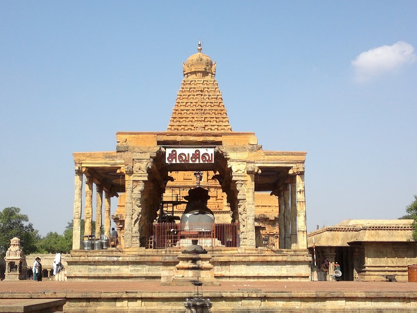 Brihadeeswarar Temple, Thanjavur